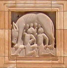 Romulus and Remus "Roman culture" (April-May 1934) from "Ten Tribes" by Eric Gill, decorative stone motifs on the Walls of the Rockefeller Museum, Jerusalem.